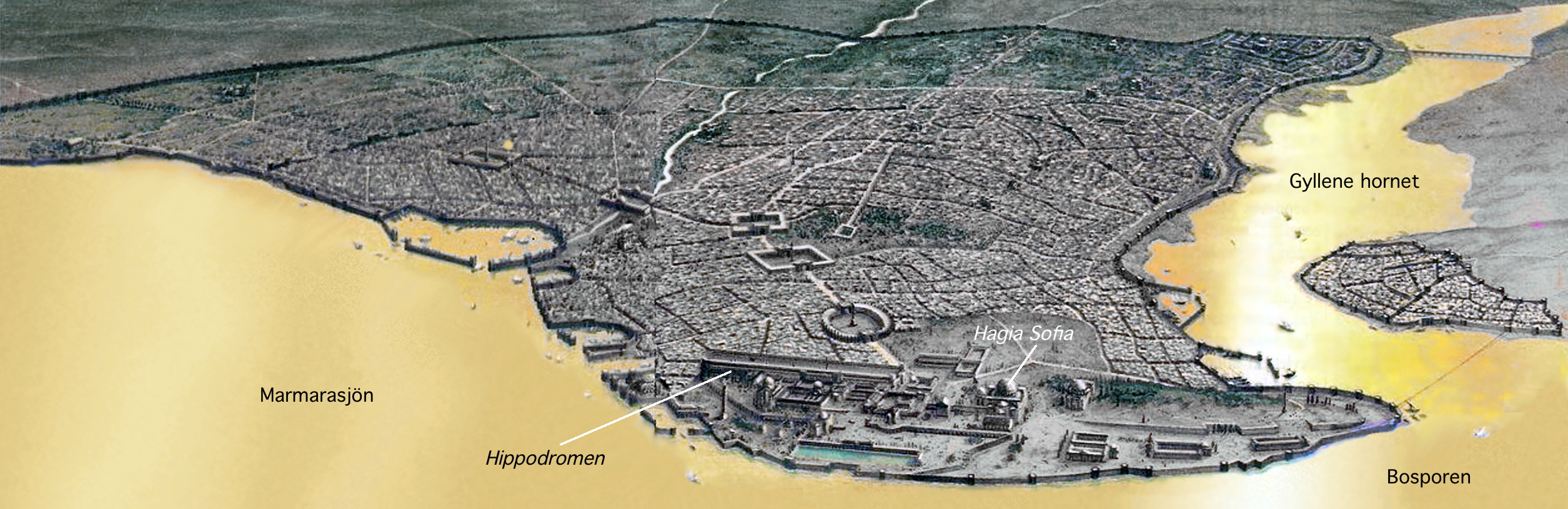 Constantinople in Byzantine times